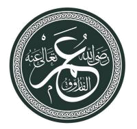 Umar